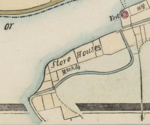 粵語: 取自一八六〇年省城地圖，Map of the city and entire suburbs of Canton，D. Vrooman。